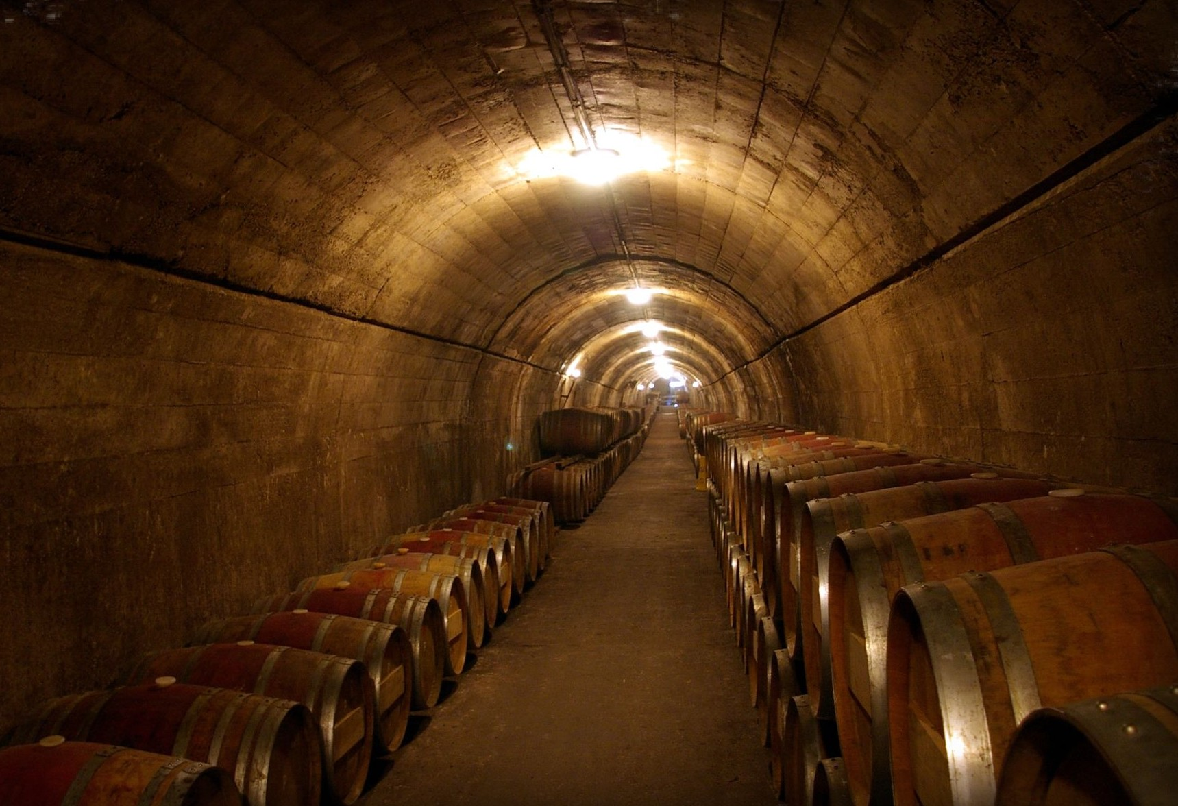 Image of the Torres wine cellars in Catalonia.